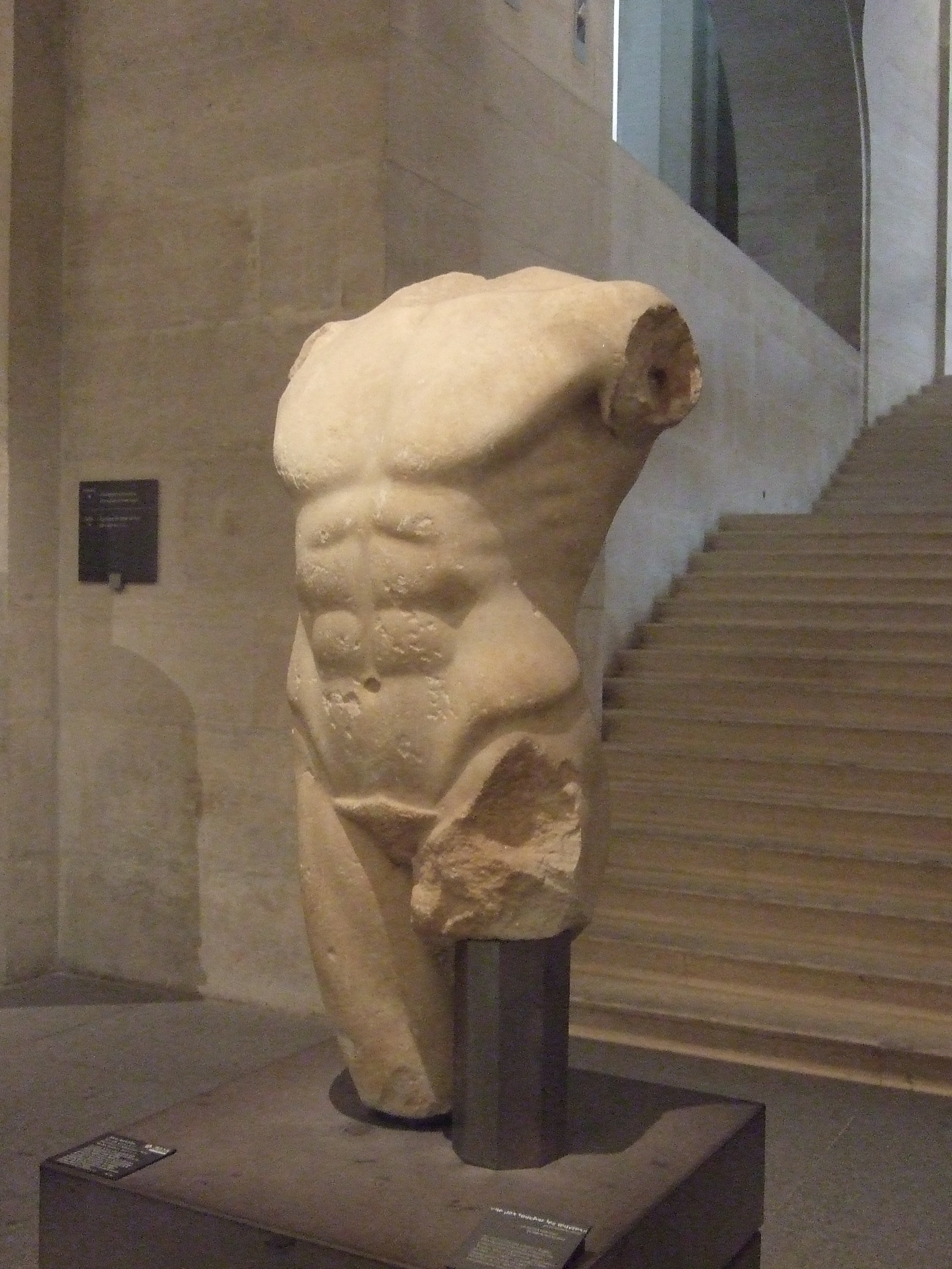 Male torso, Parian marble, ca. 480 BC–470 BC, found in Miletus.